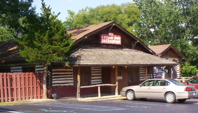 Subject: Historic Red Cedar Inn in Pacific, Missouri, United States. Caption: Red Cedar Inn is a restaurant and tavern in Pacific, Missouri, constructed of logs of eastern redcedar. It is located on historic U.S. Route 66 at the east end of town. Source: This picture was taken by Kbh3rd on July 31, 2004, expressly for use by Wikipedia.